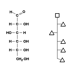 Open structure of Glucose